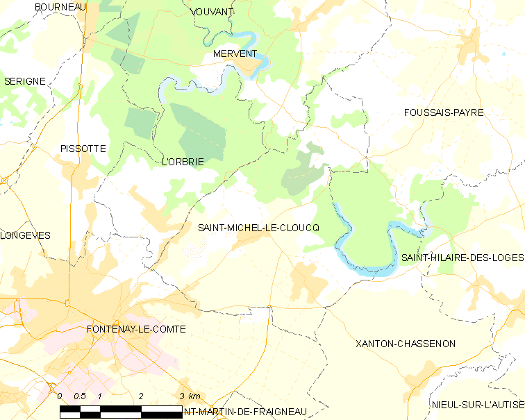 Map of French municipality Saint-Michel-le-Cloucq